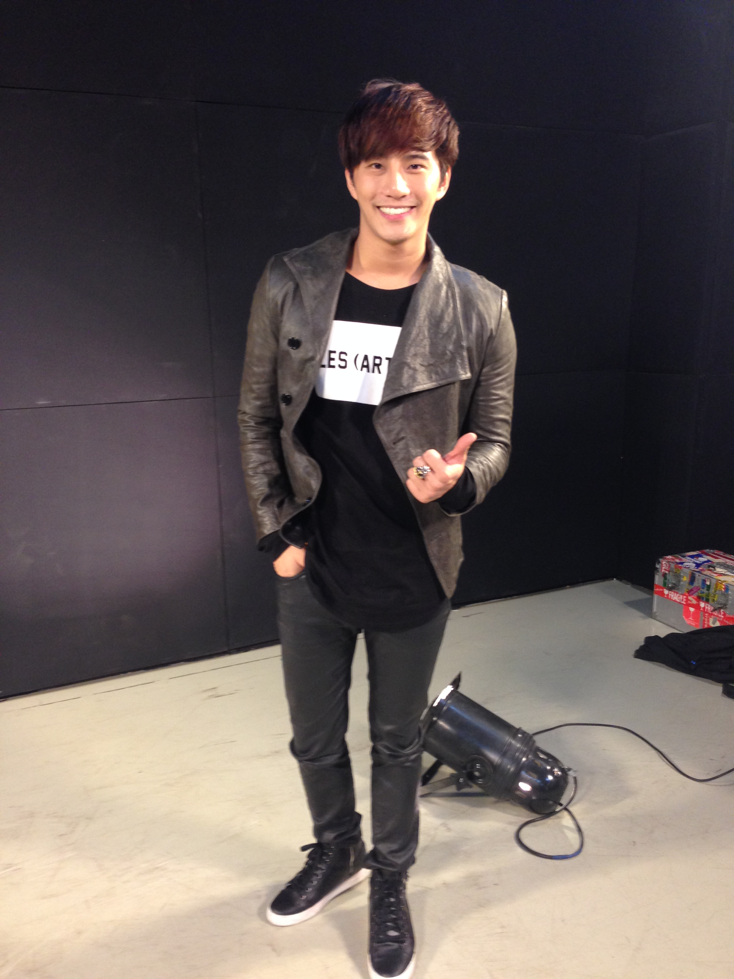 BIE KPN at VERY.